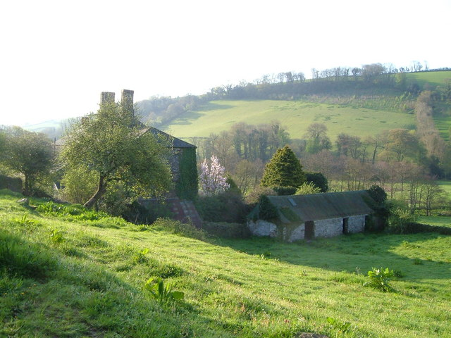 Painsford. A C17 manor, now a farmhouse, in the valley of the River Harbourne, with the vestiges of other old buildings around it. Historical and architectural details at 7:58 am